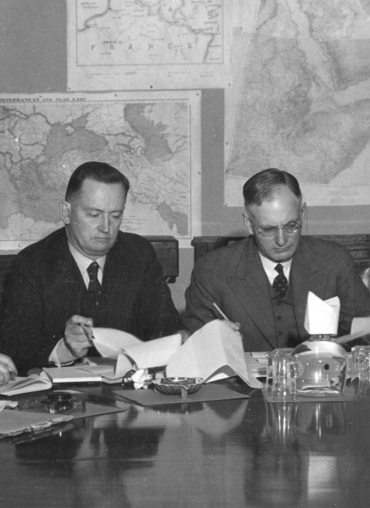 Frank Forde and John Curtin working together at a meeting of the Advisory War Council in Canberra in 1940.